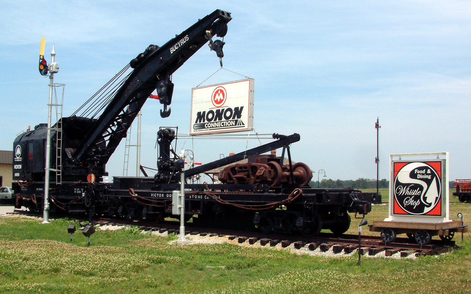 Outside the Monon Connection Museum and the Whistle Stop restaurant, located on U.S. Route 421 approximately two miles north of the town of Monon, Indiana.